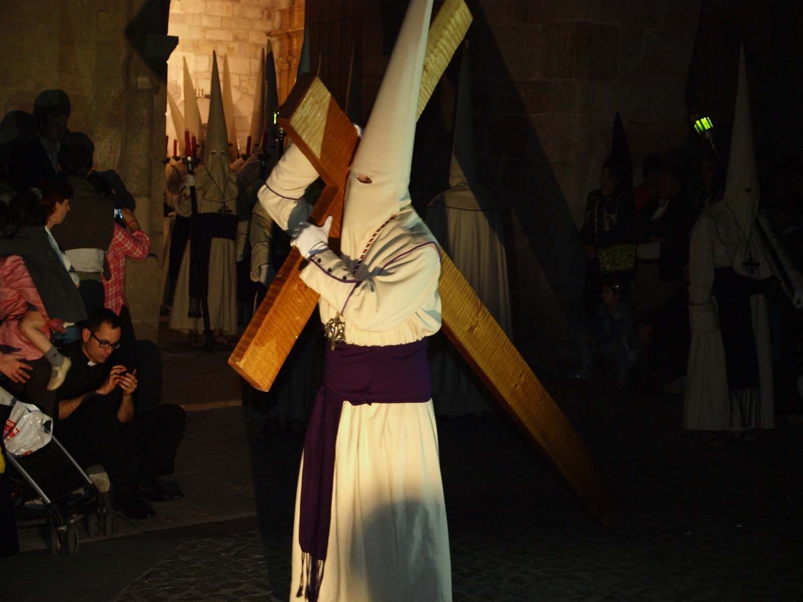 Beginning of the parade of the religious brotherhood of Lying Jesus (Penitente Hermandad de Jesús Yacente), Zamora, Spain, Holy Week